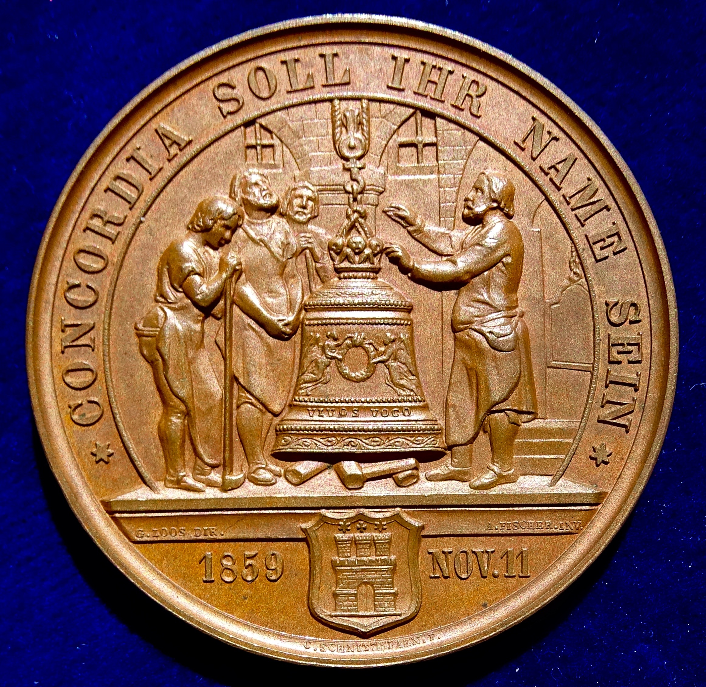 D. = 42 mm Johann Christoph Friedrich von Schiller, 1759 Marbach - 1805 Weimar The consecration of the bell by the master, and his 3 fellow craftsmen. Curved above: "* CONCORDIA SOLL IHR NAME SEIN *". In exergue: The date divided by the arms of Hamburg. Wurzbach 8217; Brettauer 1043; Forrer VIII, p. 306. Medallists: August (Ferdinand August) Fischer, 1805 Berlin - 1866 Berlin, and C. (Christian) Schnitzspahn, 1829 Darmstadt - 1877 Darmstadt. Condition: UNCIRCULATED.